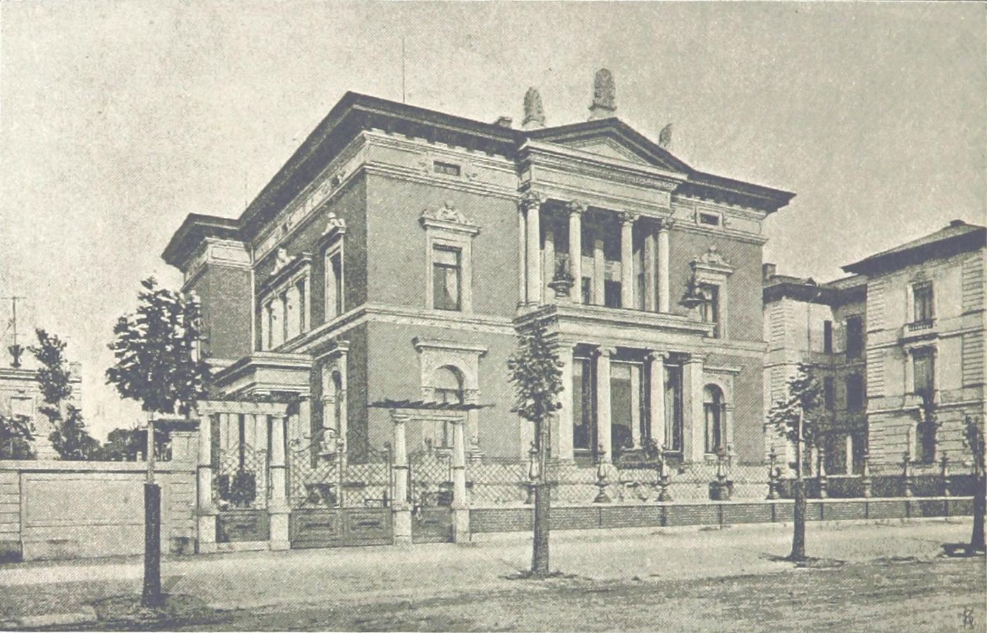 Villa Georg Giesecke, Leipzig, Germany